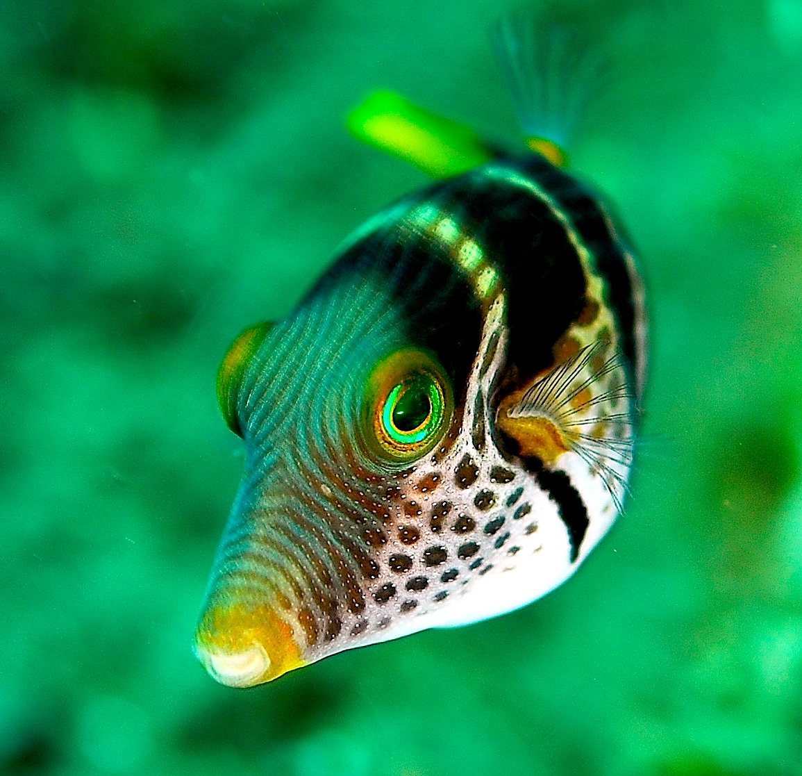 I took this shot under the sea. About 16m depth